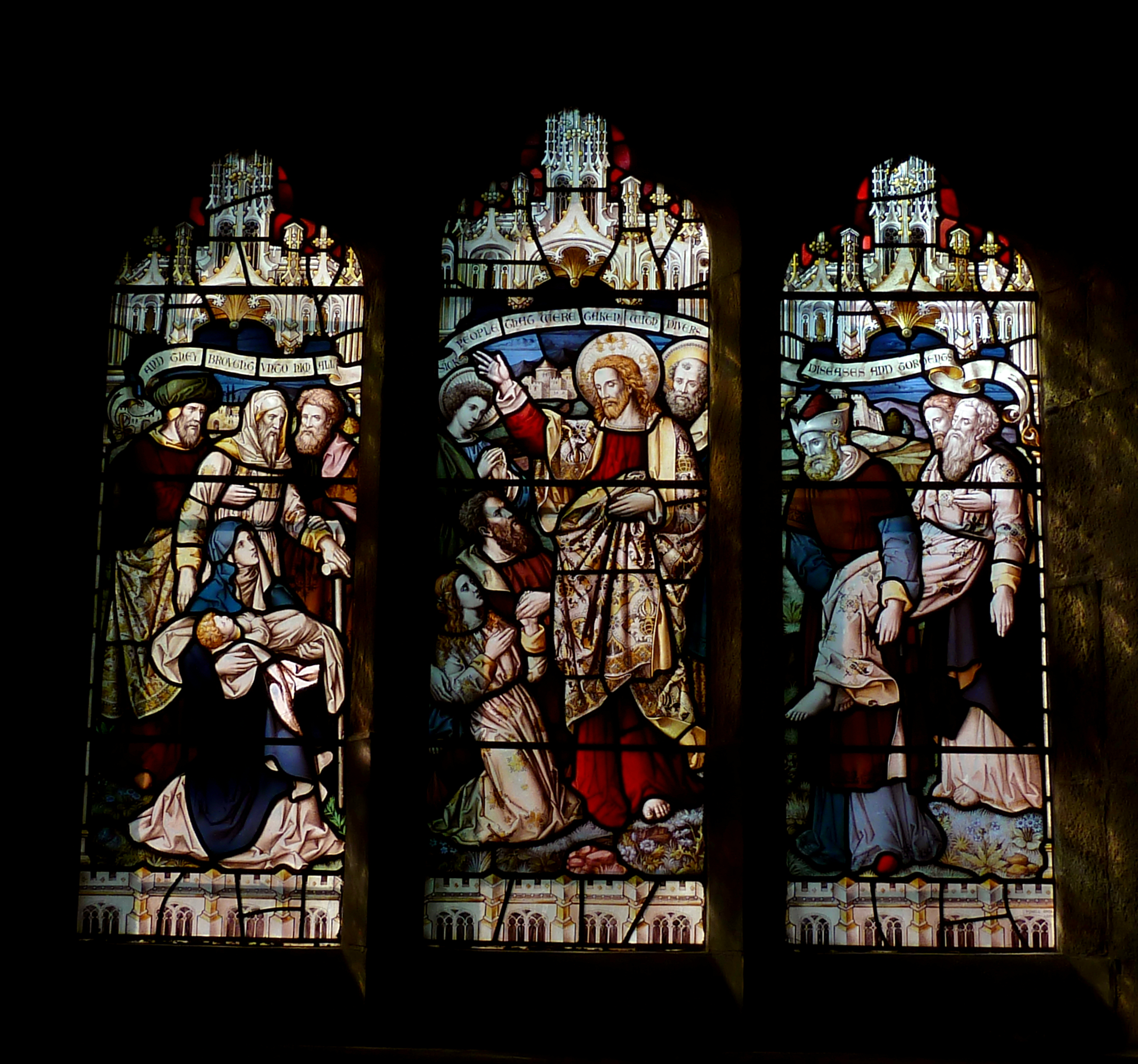 Stained glass in Church of St Thomas the Apostle, Killinghall, North Yorkshire, England. Church completed in 1880, by architect William Swinden Barber. A three-light window on the south aisle, illustrating Matthew 4.24: "And they brought unto him all sick people that were taken with divers diseases and torments." The Brass strip-plaque below says, "In memory of William Cautley born Sept 1827 died July 12th 1891." This was William Clapham Cautley who died aged 63 years. The subject of the window is appropriate because William Cautley was a doctor of obstetrics.